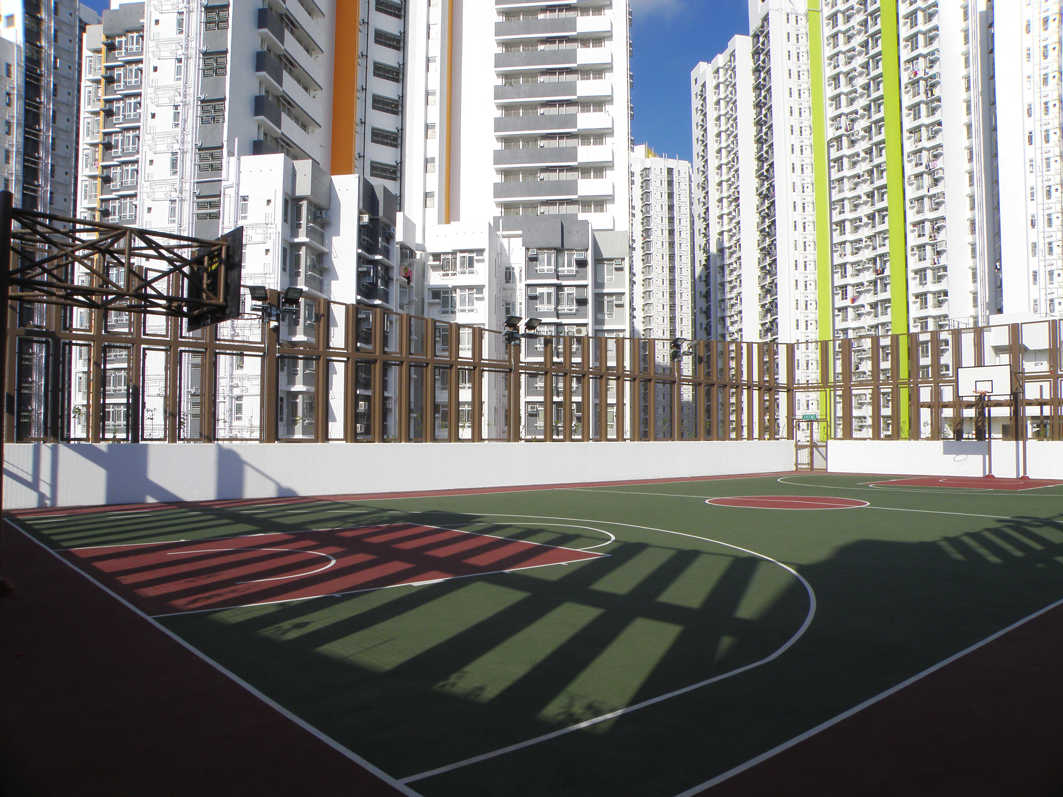 Hung Fuk Estate in Hung Shui Kiu, Hong Kong.